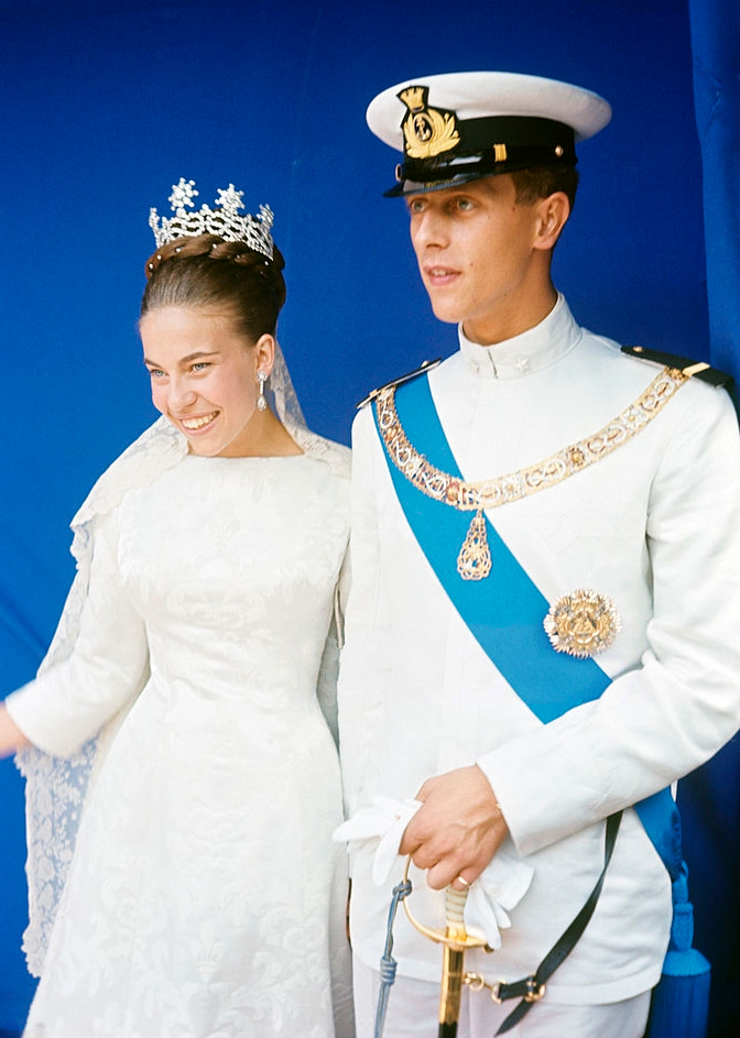 Prince Amedeo, Duke of Aosta (b. 1943) and Princess Claude of Orléans on the day of their marriage